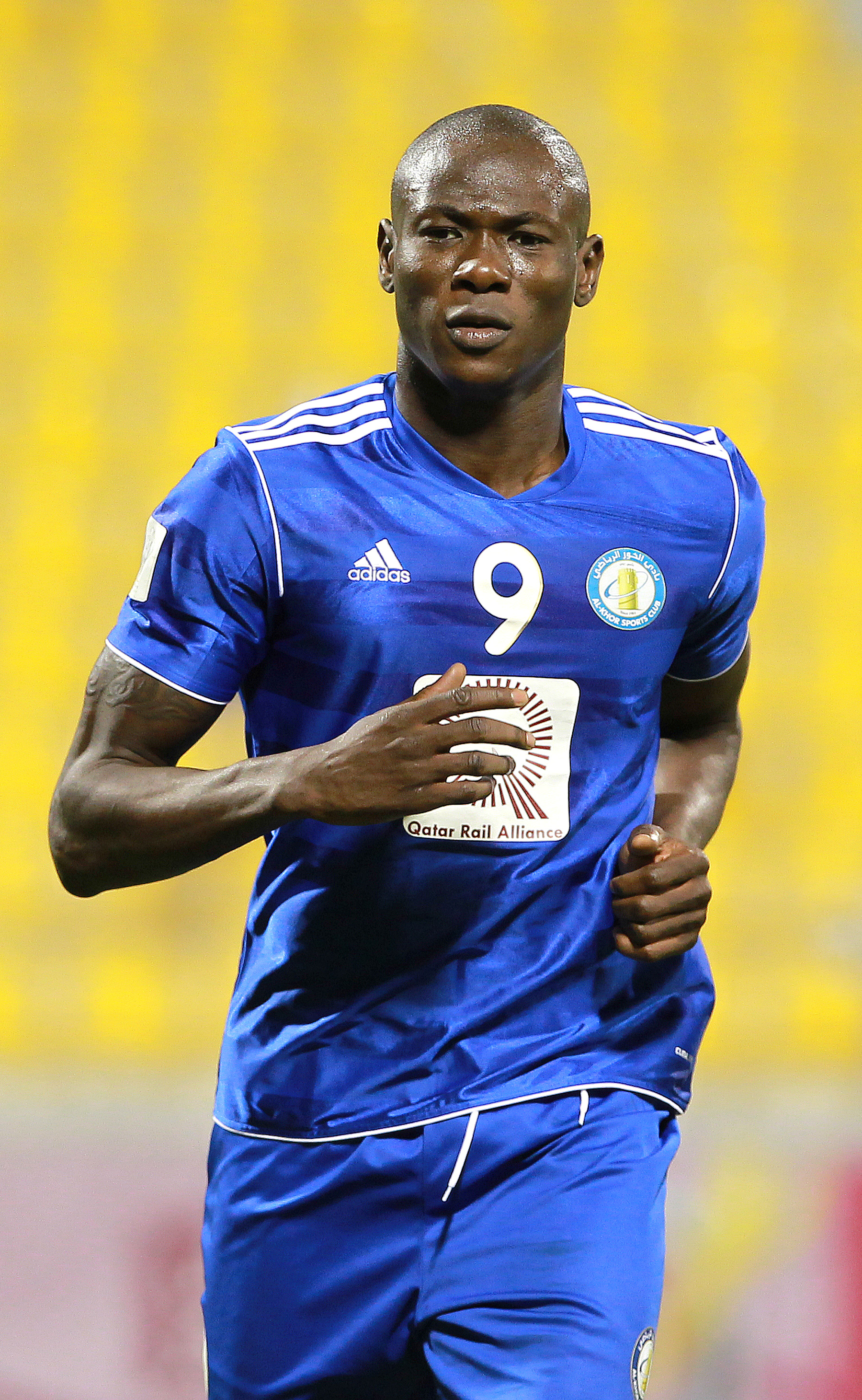 Al Khor's Burkina Faso professional Moumouni Dagano during a Qatar Stars League match.